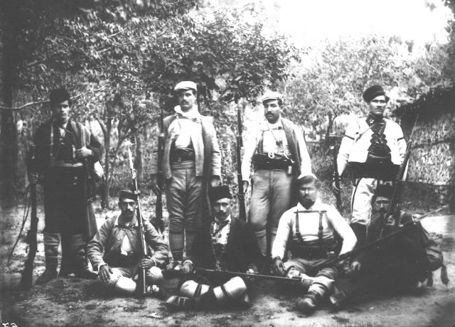 cheta of Simeon Klincharski